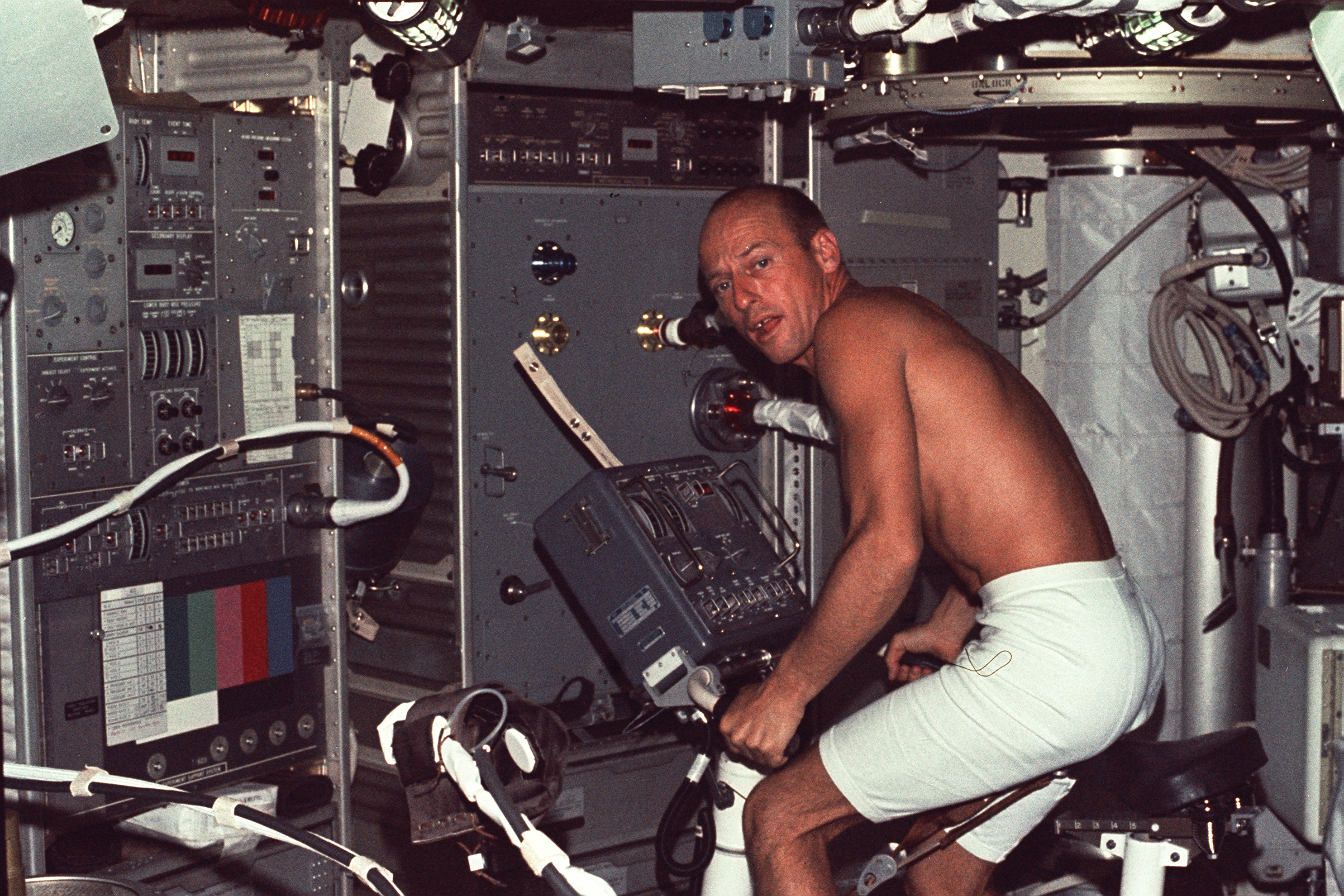 NASA Astronaut Charles "Pete" Conrad, commander of the Skylab 2 mission, exercising on the bicycle ergometer in the crew quarters of the Skylab Orbital Workshop. NASA photo SL2-02-161 in public domain.